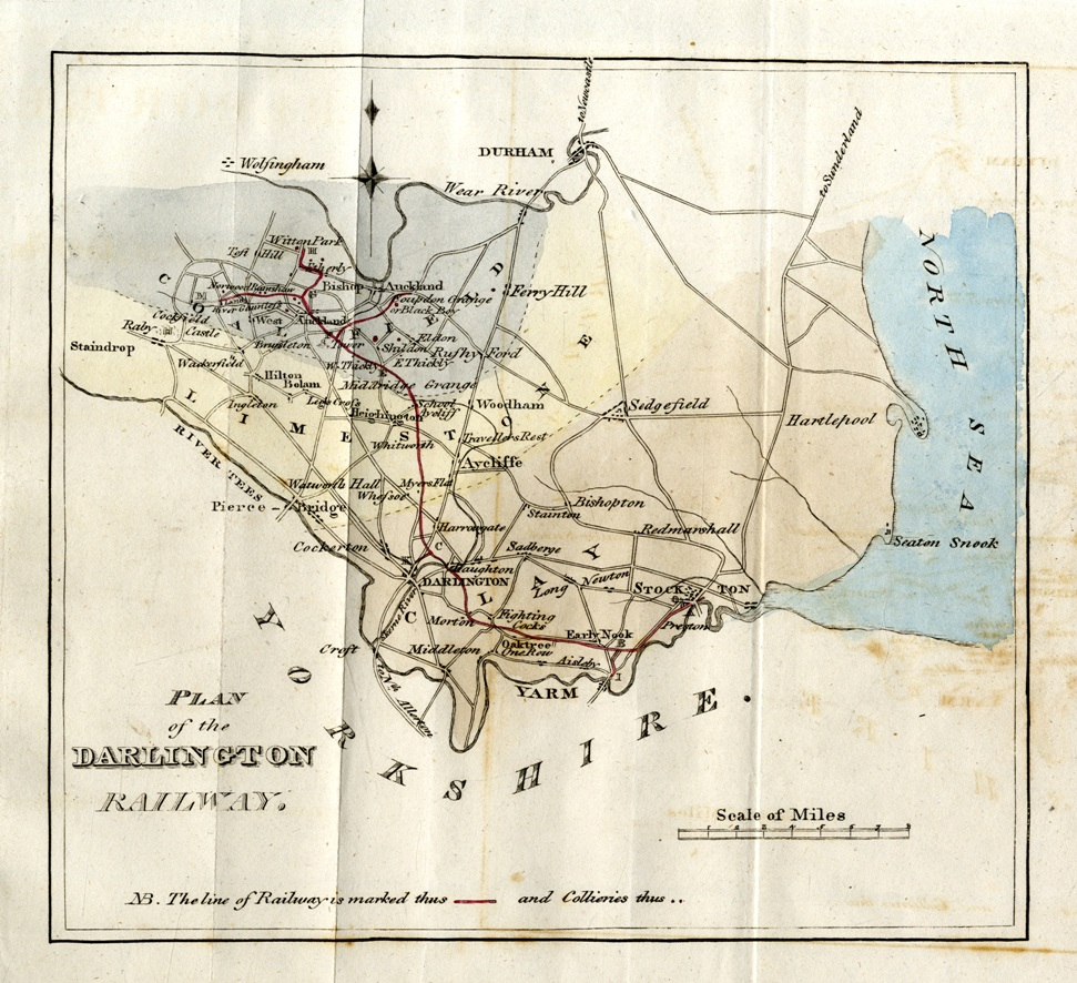 Map by unsigned cartographer within 1821 Stockton and Darlington Railway report. A short pamphlet plus fold-out maps. The original from which this has been scanned is in the North of England Institute of Mining and Mechanical Engineers. It is reference Tracts vol 57 p252. The scan and the upload to Wiki Commons have been made with the permission and direction of their librarian Jennifer Kelly.